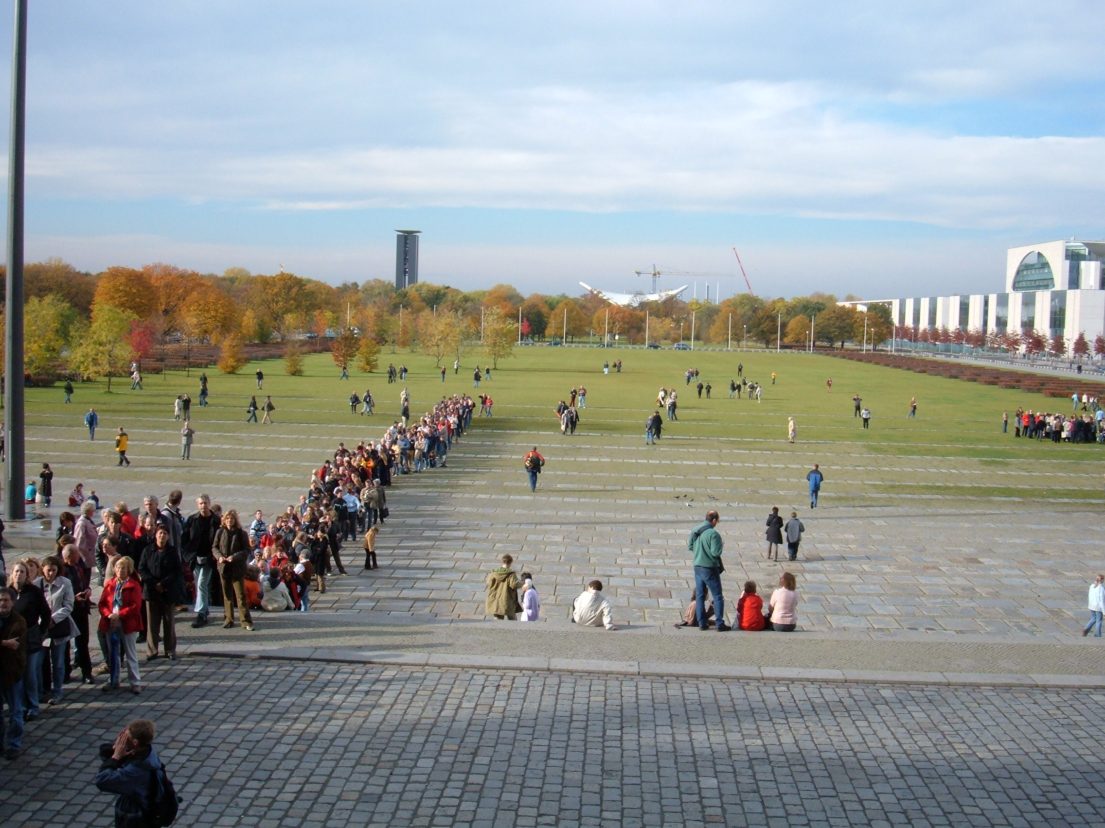 People waiting to get inside the Reichstag building in Berlin, Germany for free access to the dome and roof.